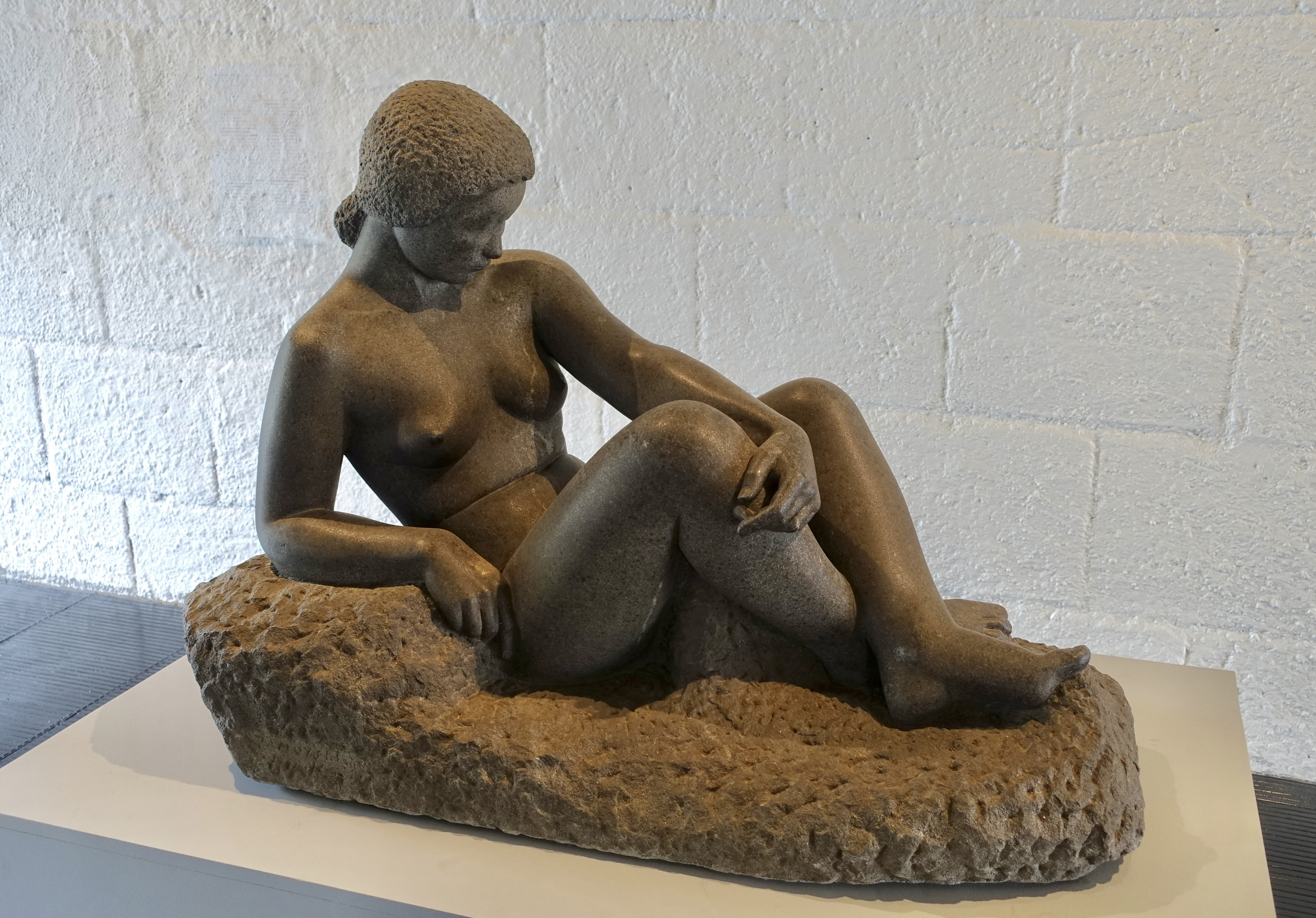 Exhibit outside the Museu de Arte de São Paulo - São Paulo, Brazil.